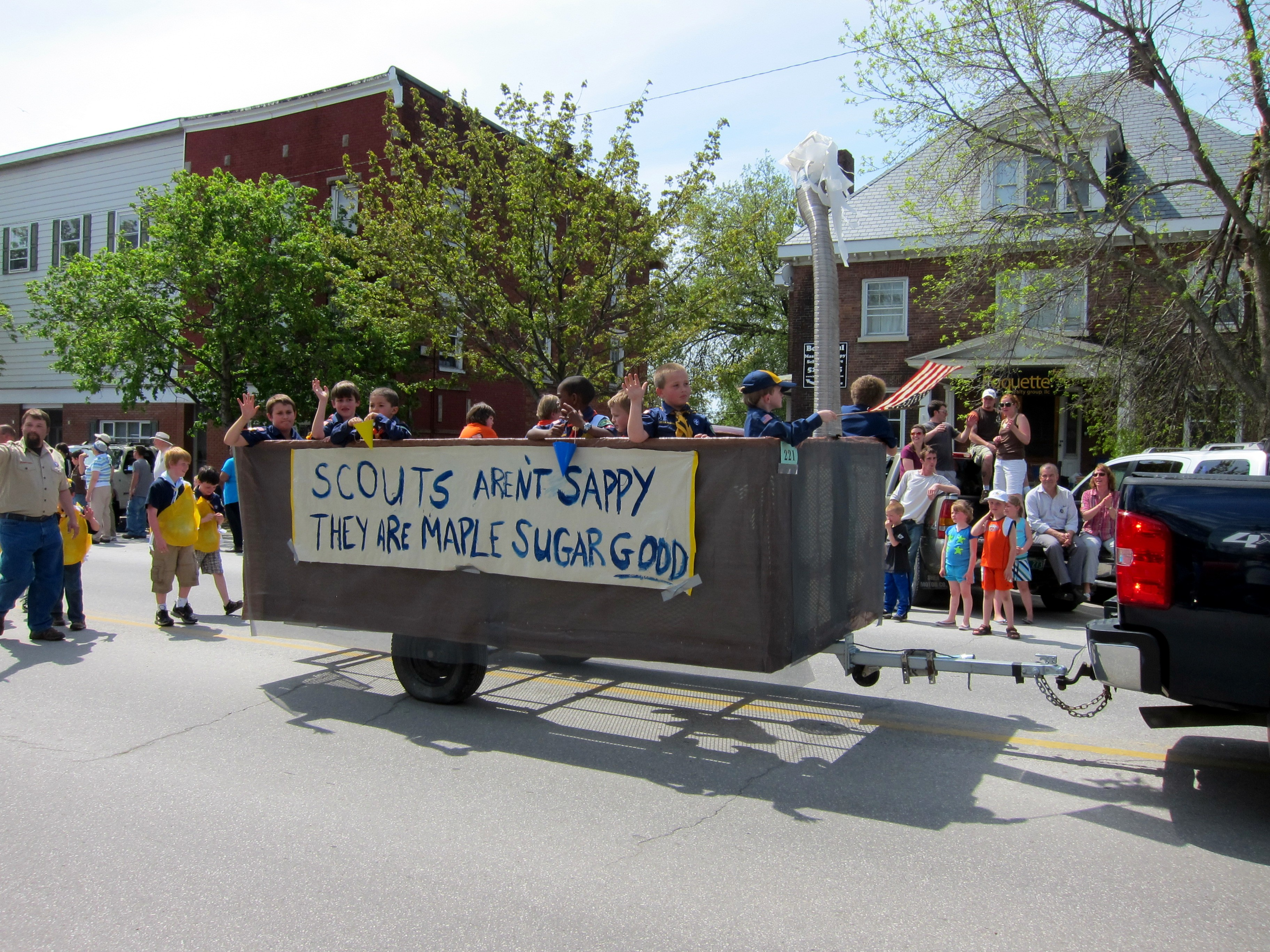 Cub scouts in the 2010 Maple Festival. St Albans's, Vermont